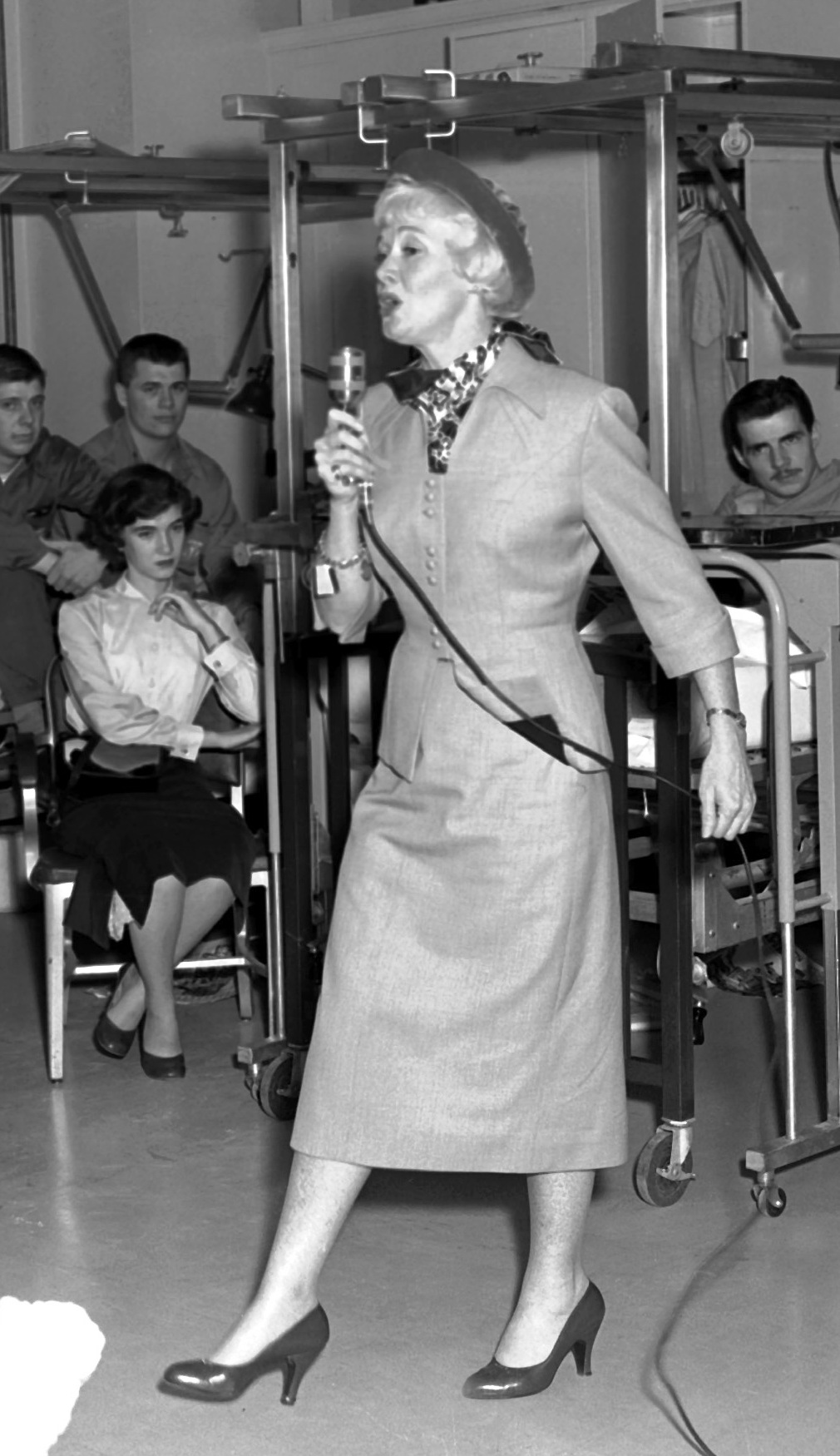 Actress Penny Singleton entertains patients in Wards 5-E and 3-W at Fitzsimons General Hospital.